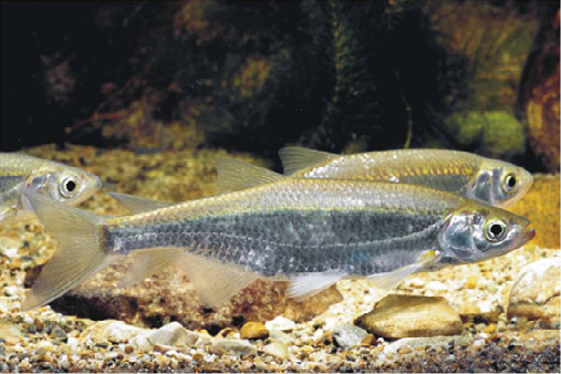 Alburnus alburnus